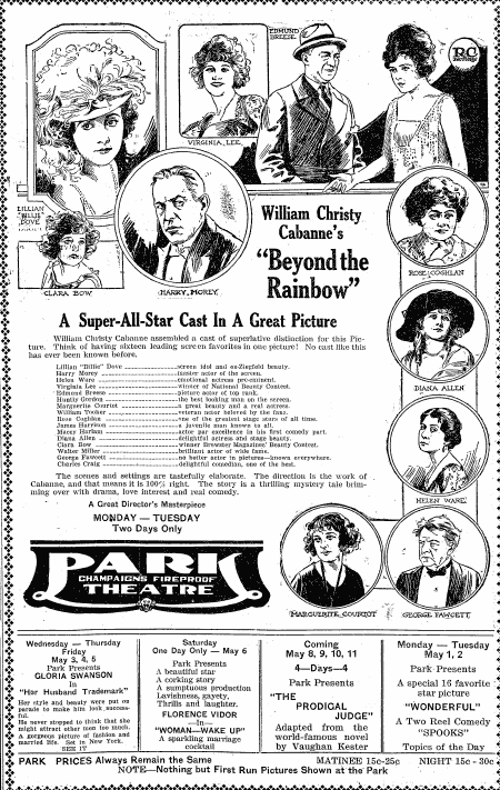 Movie theater advertisement for Beyond the Rainbow (1922).